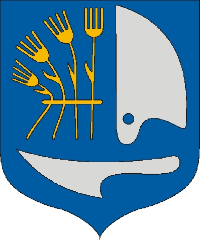 Coat of arms of Magyarszék, Hungary